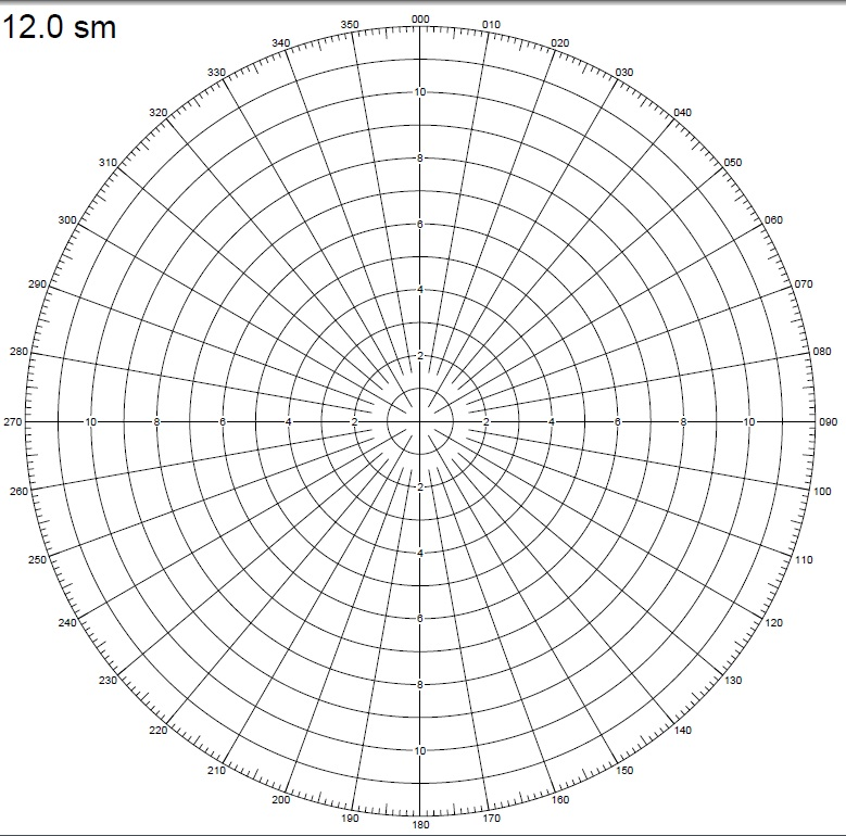 Radarplott